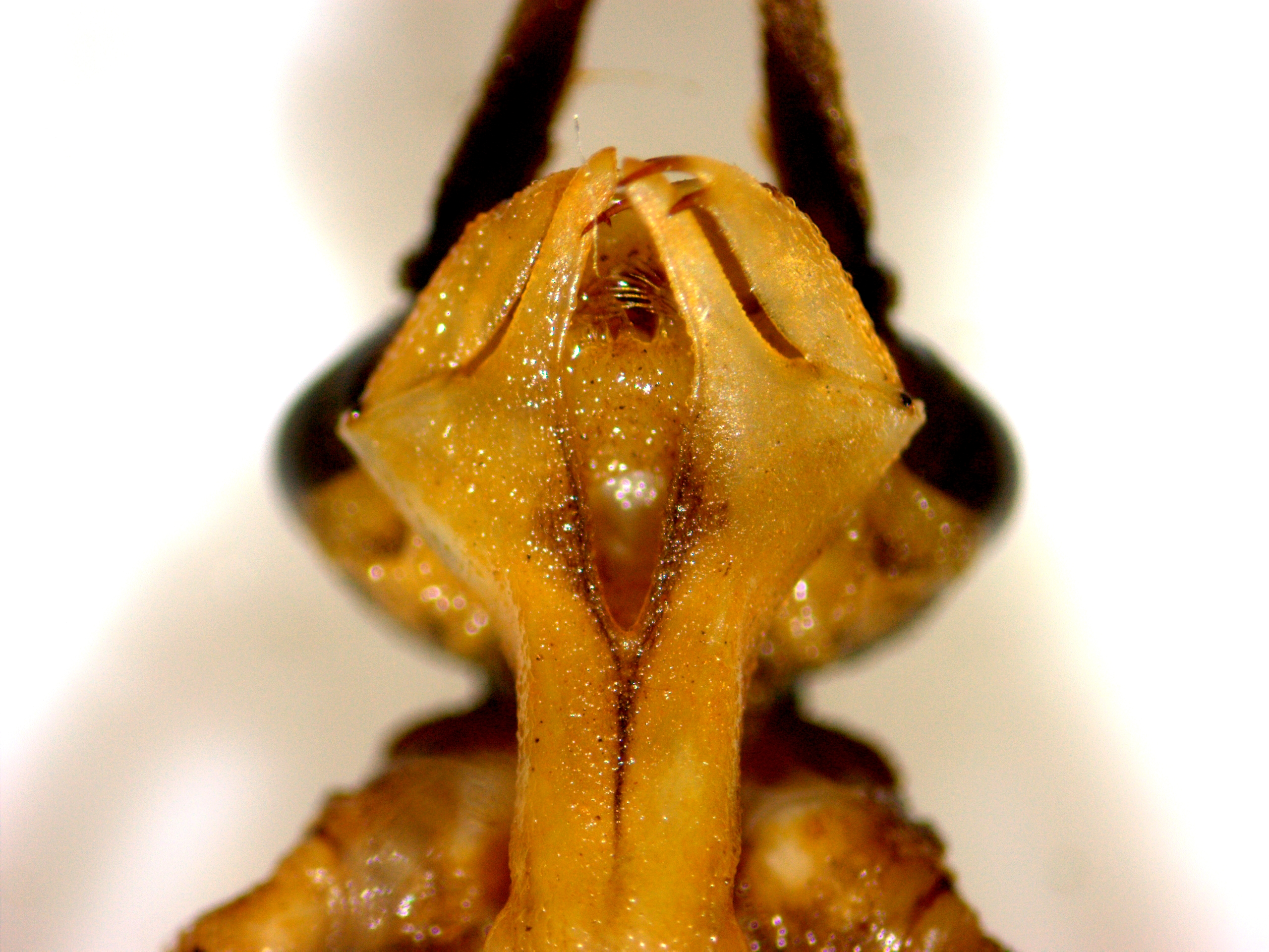 Calopteryx virgo larva from Božička river, SE Serbia.